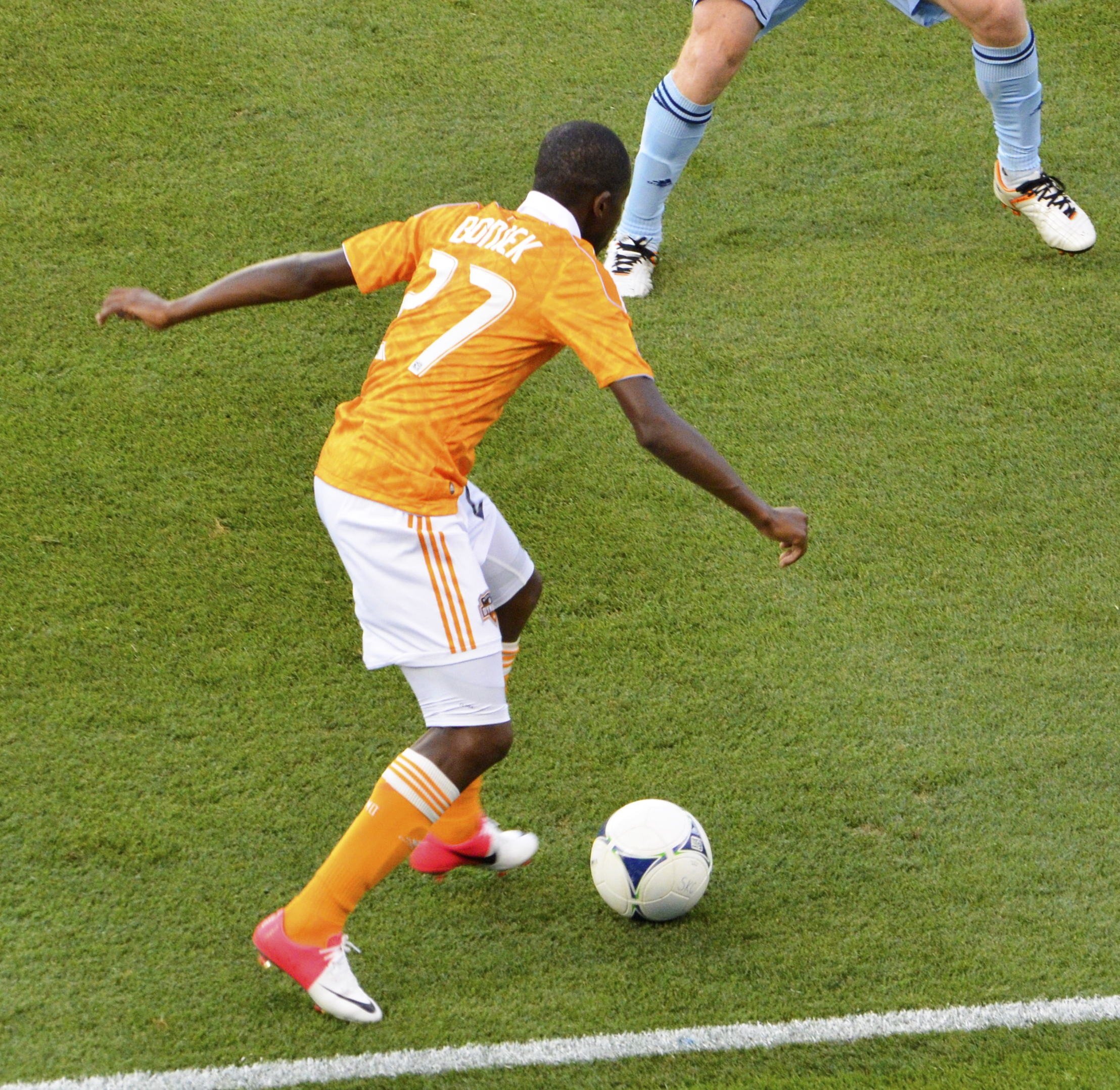 Oscar Boniek Garcia, a midfielder for the Houston Dynamo's versus the Sporting KC on July 7th, 2012.